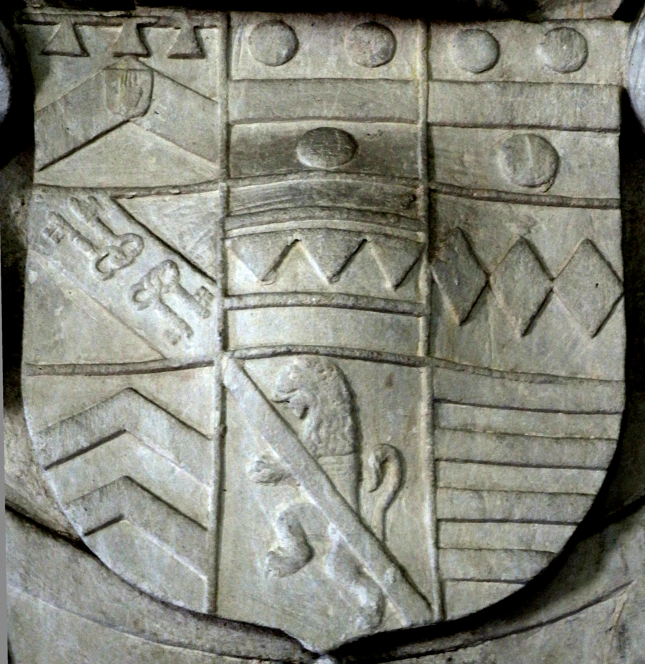 Arms of Sir Edmund Prideaux, 1st Baronet (died 1628), of Netherton in the parish of Farway, Devon, on his monument in St Michael and All Angels' parish church, Farway. Quarterly of 9: 1: Argent, a chevron sable in chief a label of three points gules (Prideaux, with inescutcheon of a baronet, Red Hand of Ulster); 2: Argent, a fess between three pellets (de Adeston of Adeston in the parish of Holbeton, for Joan de Adeston (fl.1373), daughter and co-heiress of Gilbert de Adeston and wife of John Prideaux of Orcharton (Blazon per Pole, Sir William (d.1635), Collections Towards a Description of the County of Devon, Sir John-William de la Pole (ed.), London, 1791, p.467) 3: de Adeston 4: On a bend two pairs of keys adorsed (Spencer of Spencer Combe, per Pole, p.502) 5: Argent, a fess per fess indented sable and vert betwen two cotises of the second (Hody) ("Huddie, quartered by Prideaux of Throwborough, (i.e. Theuborough) Co. Devon" Burke's General Armory, 1884, p.515[1]) 6: Sable, three lozenges conjoined in fess ermine (Giffard, for Alice Giffard, daughter and co-heiress of Stephen Giffard of Thuborough and 3rd wife of William Prideaux of Adeston, Escheator of Cornwall in 1461) 7: Argent, two chevrons sable (de Esse of Thuborough and Sowton, per Pole, p.481) 8: A lion rampant a bendlet overall 9: Barry of eight or and gules (Poyntz of Langley, Yarnscombe)